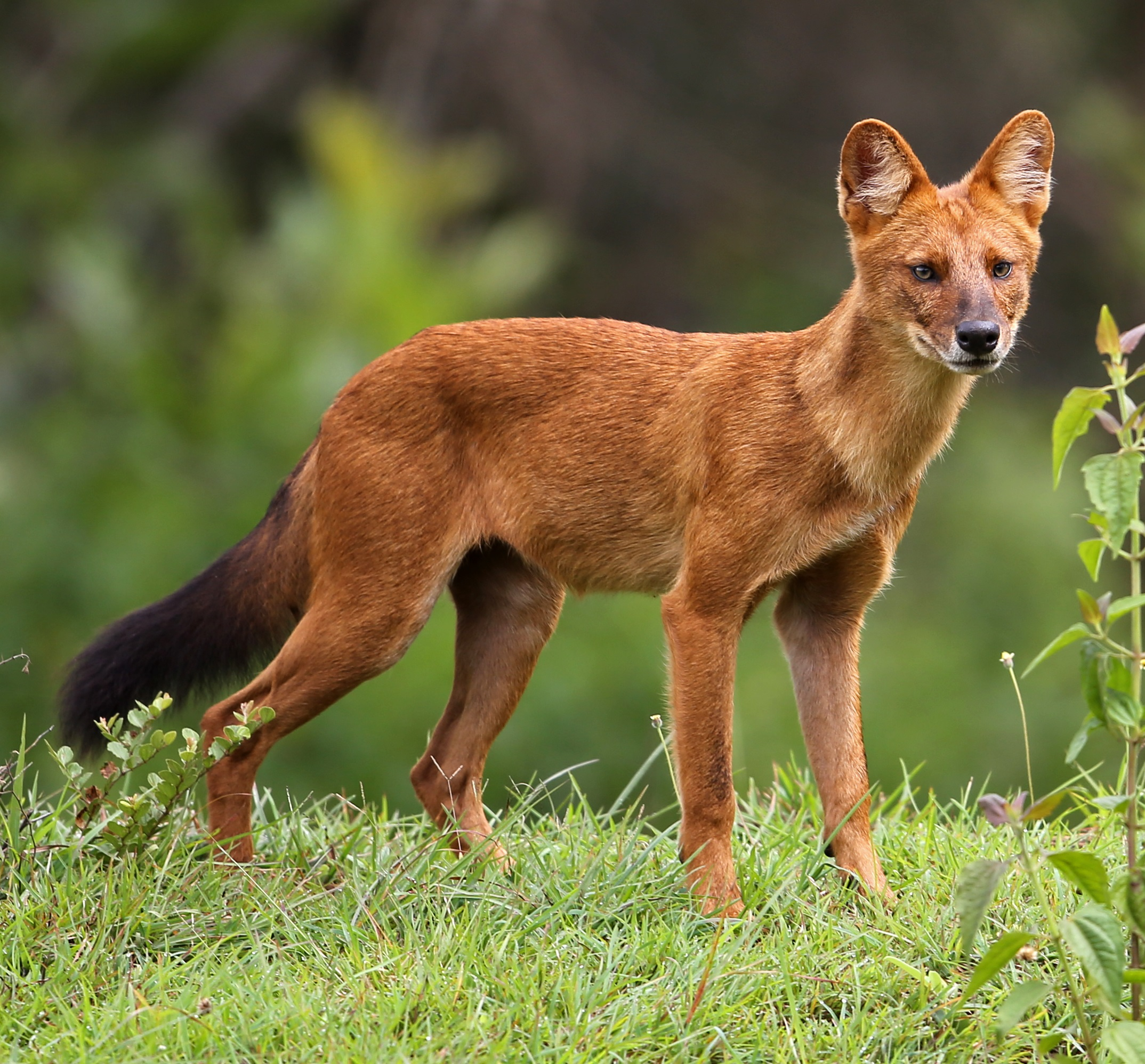 Dhole(Asiatic wild dog)